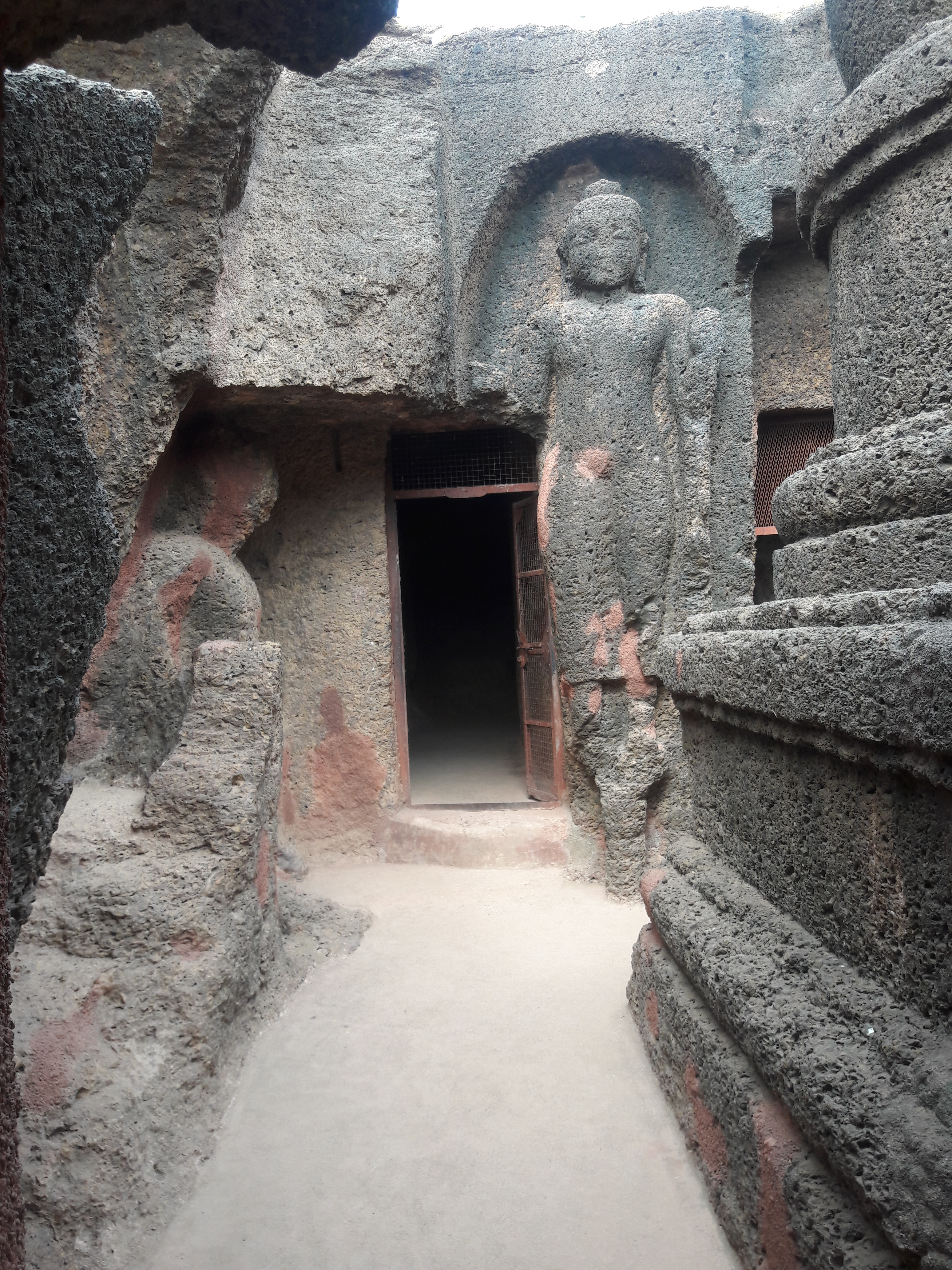 Dharmrajeshwar is an ancient Buddhist Site of 4th - 5th century in mandsaur district in madhya pradesh, india . It is an example of indian rock- cut architecture .situated in garoth tahsil of mansaur district at a distance of 4km from chandwasa town and 106 km from mandsaur city. nearest railway station is shamgarh about 22 km . its original name is Dhamnar.